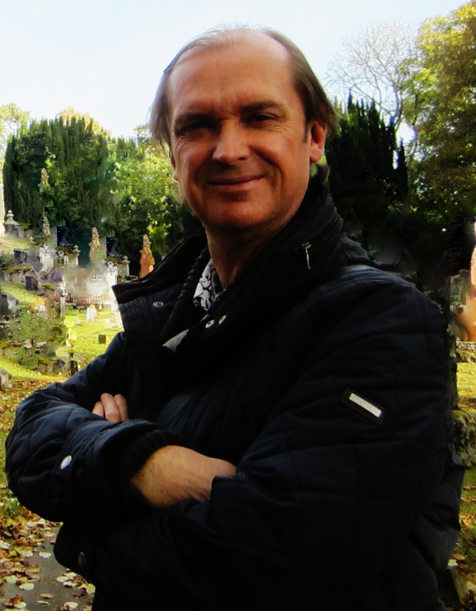 Geoffrey McSkimming author photo (December 2012)